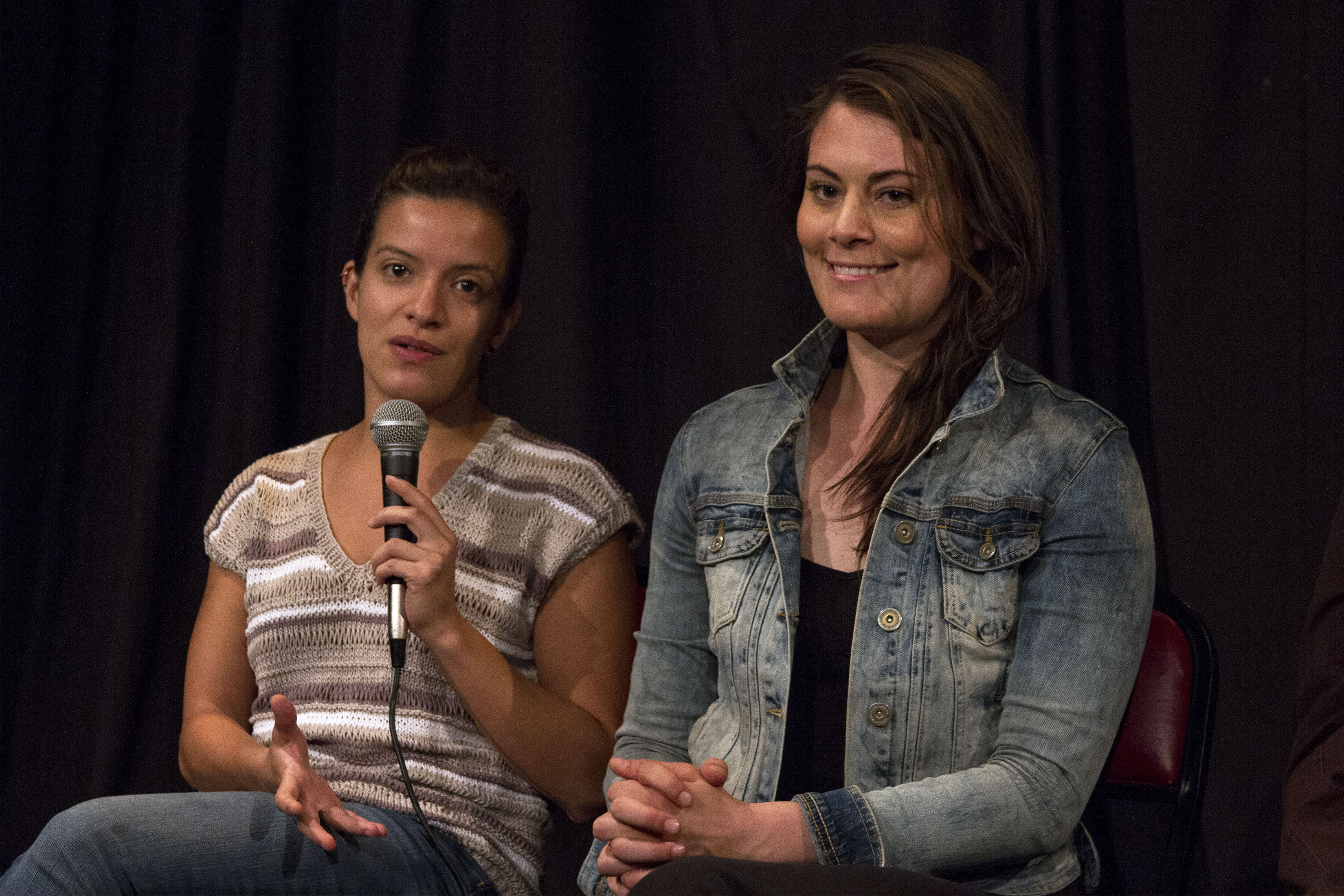 Martes 4 de agosto 2015. En el Foro A Poco No, se ofreció una conferencia de prensa compartida para anunciar las temporadas de las obras El Amor de las Luciérnagas, escrita y dirigida por Alejandro Ricaño para la compañía Los Guggenheim, Sonia Franco y Sara Pinet, quienes pertenecen al elenco, se encargaron de dar la presentación de la obra; Tango, Danzones y Amores, a cargo de la Compañía Joven Danza Capital, que incluye coreografías de Cecilia Lugo, Elisa Rodríguez y Mauricio Nava; AFUERA... Reconstrucción de una Obra, escrita y dirigida por Nicolás Poggi para la compañía Motos Ninja, la cual tiene como intérpretes a José Antonio Becerril, Ricardo Rojas y Ana García, y Mía, pieza de teatro infantil de Amaranta Leyva, dirigida por Lourdes Pérez Gay para la compañía Marionetas de la esquina. Foto: Tania Victoria / Secretaria de Cultura Ciudad de México.